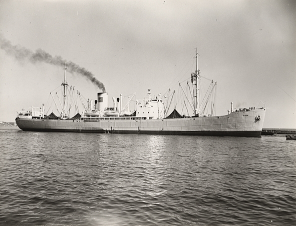 General cargo ship GOYA (IMO 5411577) built at Bremer Vulkan Schiffbau & Maschinenfabrik, Bremen-Vegesack/Germany (yard № 753, launched: 17-05-1938, delivered: 28-06-1938) as KAMERUN for Woermann Linie AG, Hamburg, 13-11-1939 seized by Kriegsmarine (German Navy) and converted to repair ship (Werkstattschiff 2), 1940 in service as repair ship at Pillau, 1941 transferred to Norway as repair ship for German U-boats, 15-05-1945 seized by Royal Navy in Norway, 1946 handed over to Norway and converted to general cargo ship, 1947 renamed GOYA (A/S J.Ludwig Mowinckels Rederi, Bergen), 03-1949 converted to passenger ship at Kiel, 1949-1951 transport of emigrants from Europe to Australia, 03-1952 converted back to general cargo ship, 1961 REINA (A/S Rona, Haugesund), 1962 SVANHOLM (D/S A/S Svanholm, Haugesund), 1963 HILDE (Skips A/S Hilde, Bergen), 1964 MELINA (Meldaf Sg Co Ltd, Piraeus), 19-07-1969 arrived Kaohsiung for BU, 11-1969 BU at Kaohsiung; collection J. Robert Boman (1926 - 2002) owned by Sjöhistoriska museet.